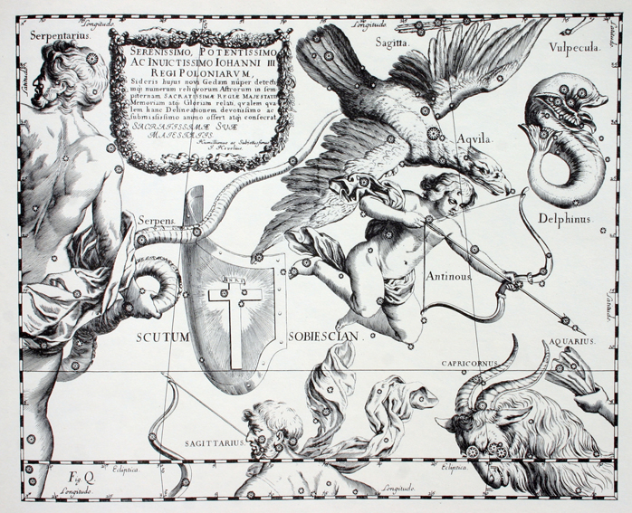 The Scutum constellation from Uranographia by Johannes Hevelius. The view is mirrored following the tradition of celestial globes, showing the celestial sphere in a view from "outside"